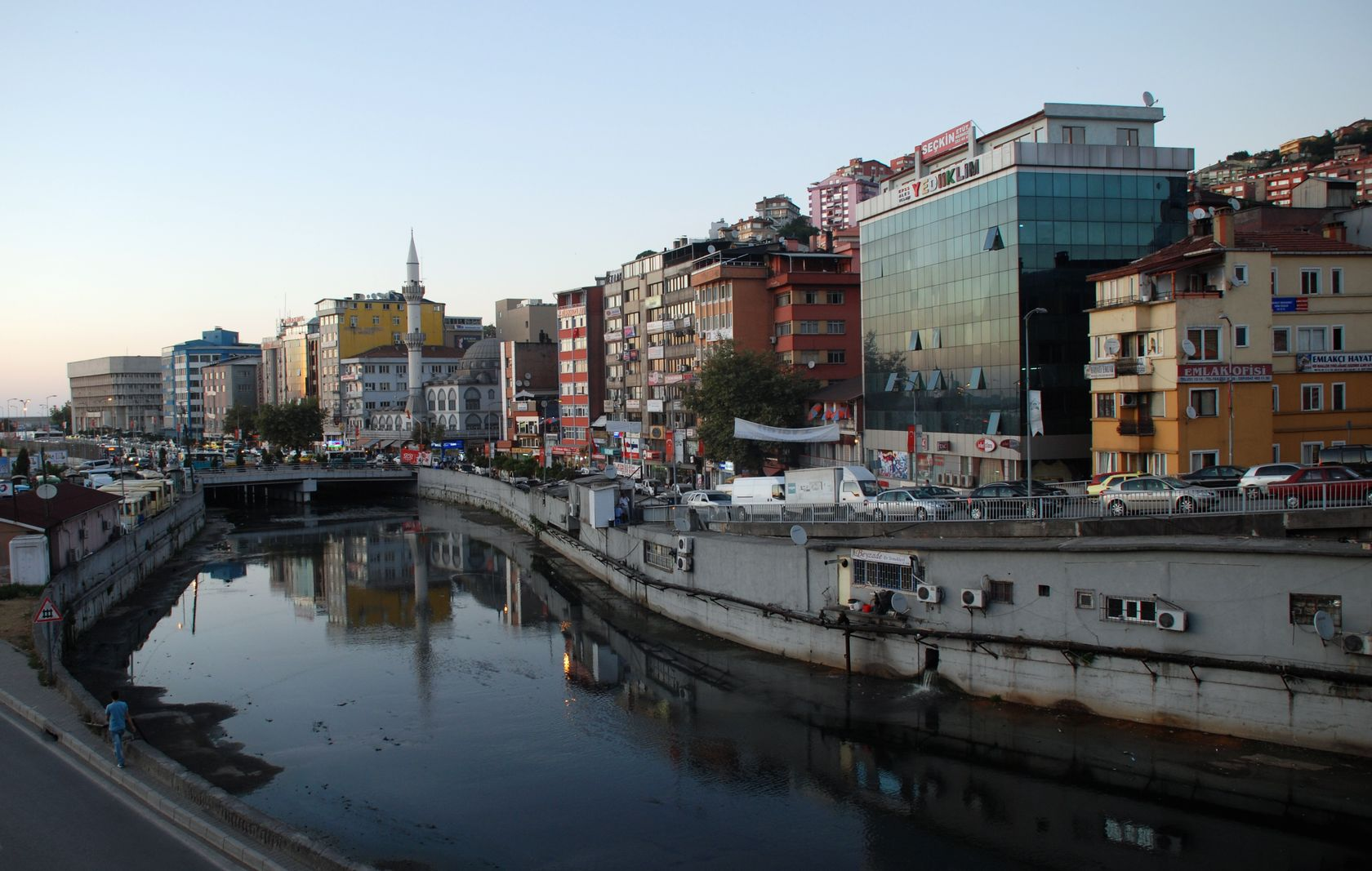 Zonguldak, Turkey, center